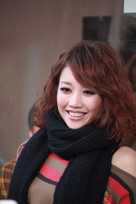 A-Lin is a Taiwanese pop singer.Her birth name was "Li-Ling Huang".中文（中国大陆）: A-Lin是一位台湾流行音乐歌手。她本名是叫「黄丽玲」。